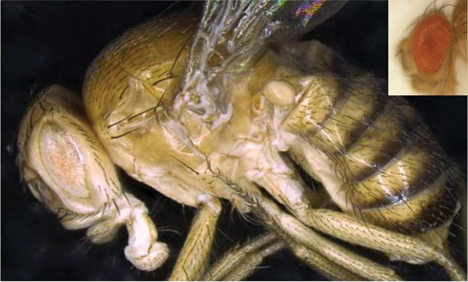 Microscope photography of Drosophila synthetica with the head of D. melanogaster as comparison